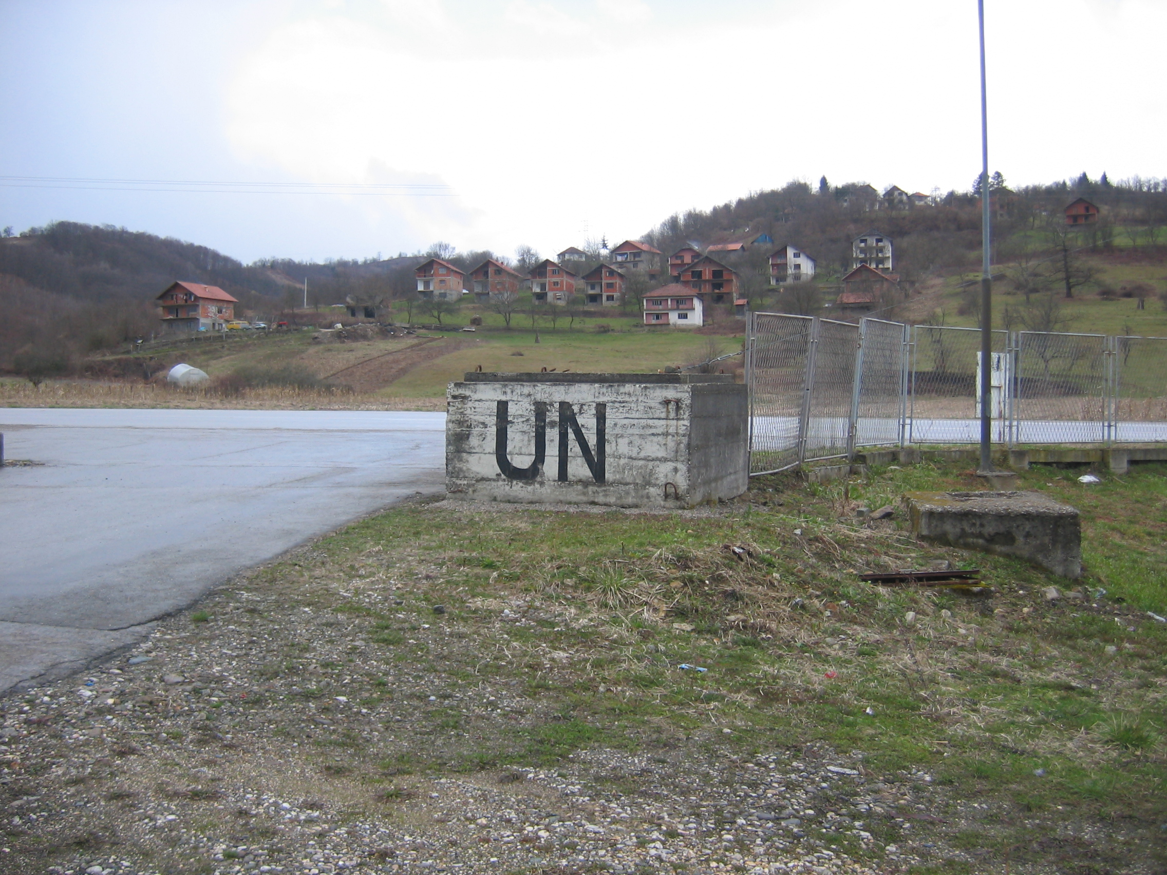 Concrete block at the exit of the compound of the former Dutch battalion ("Dutchbat") headquarters in Potočari near Srebrenica in Bosnia and Herzegovina.